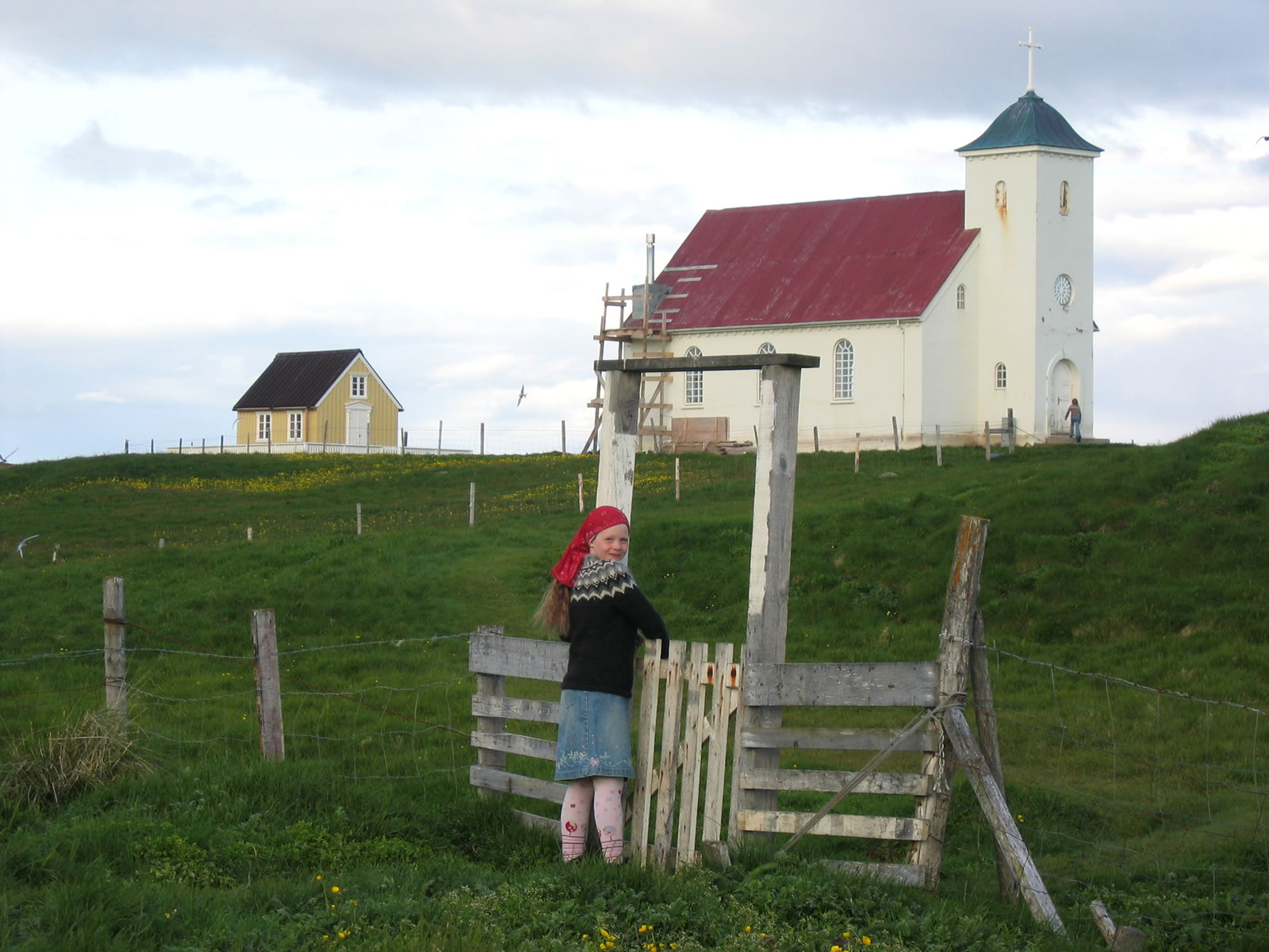 Flatey á Breiðafirði - Kirkja og bókasafn Church and library in Flatey. photo by Salvor Gissurardottir in June 2006